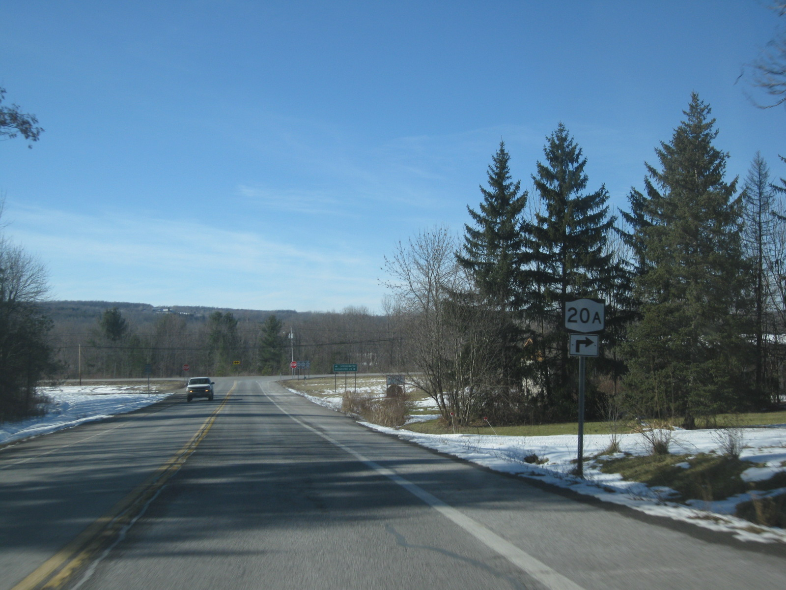 Approaching New York State Route 15A on U.S. Route 20A (here errantly signed as NY 20A) westbound near Hemlock.